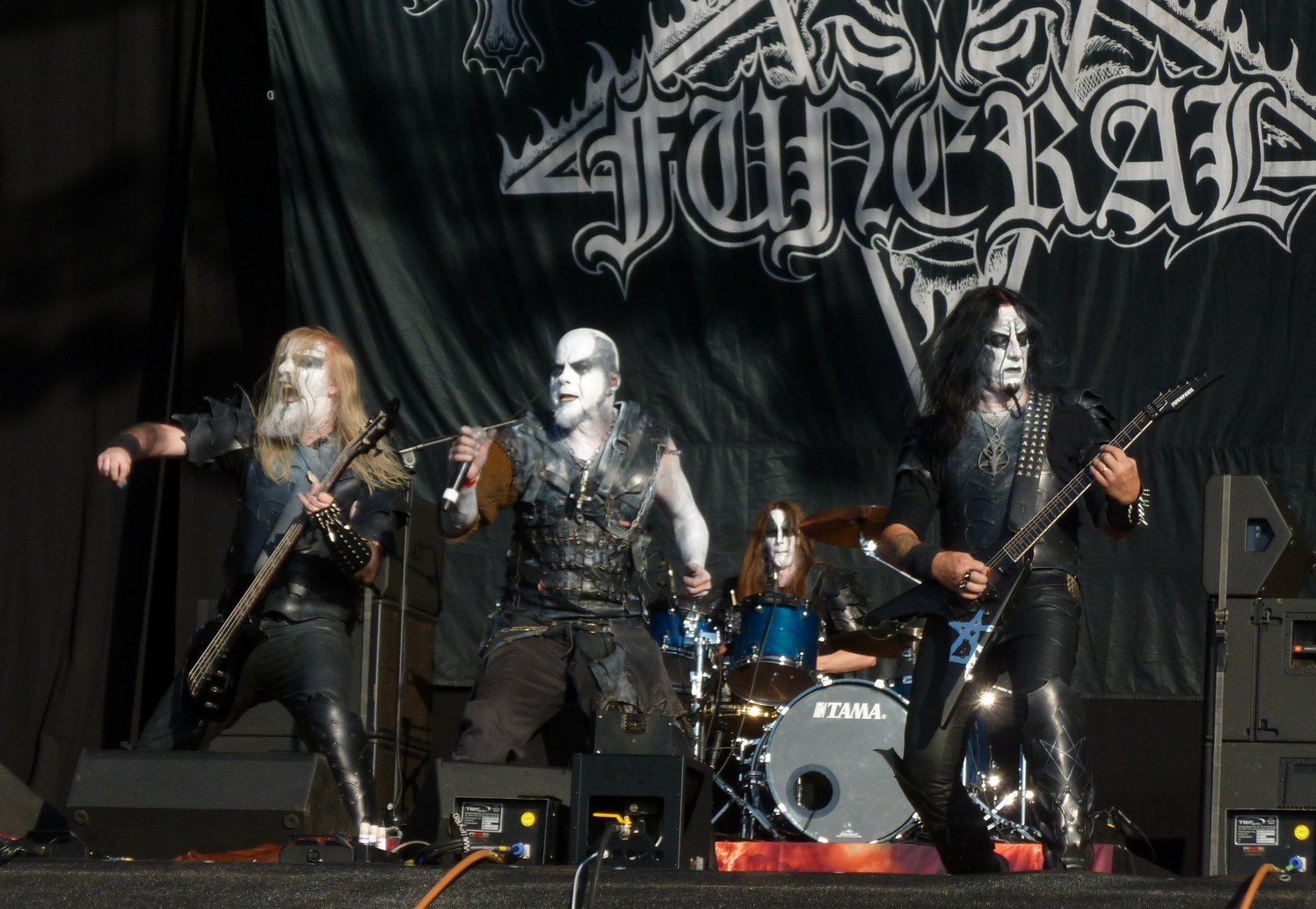 Dark Funeral performing live at Wacken Open Air 2012.